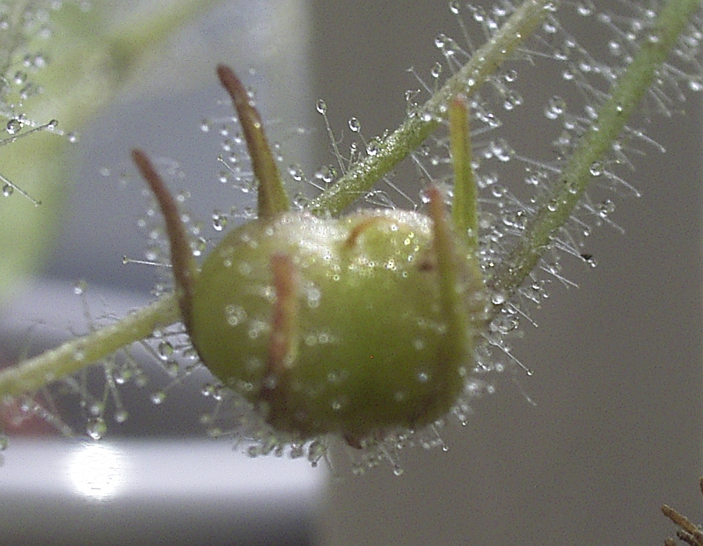 Byblis liniflora capsula Author: Denis Barthel